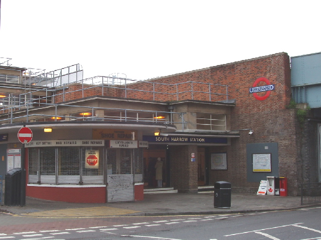 South Harrow Underground station